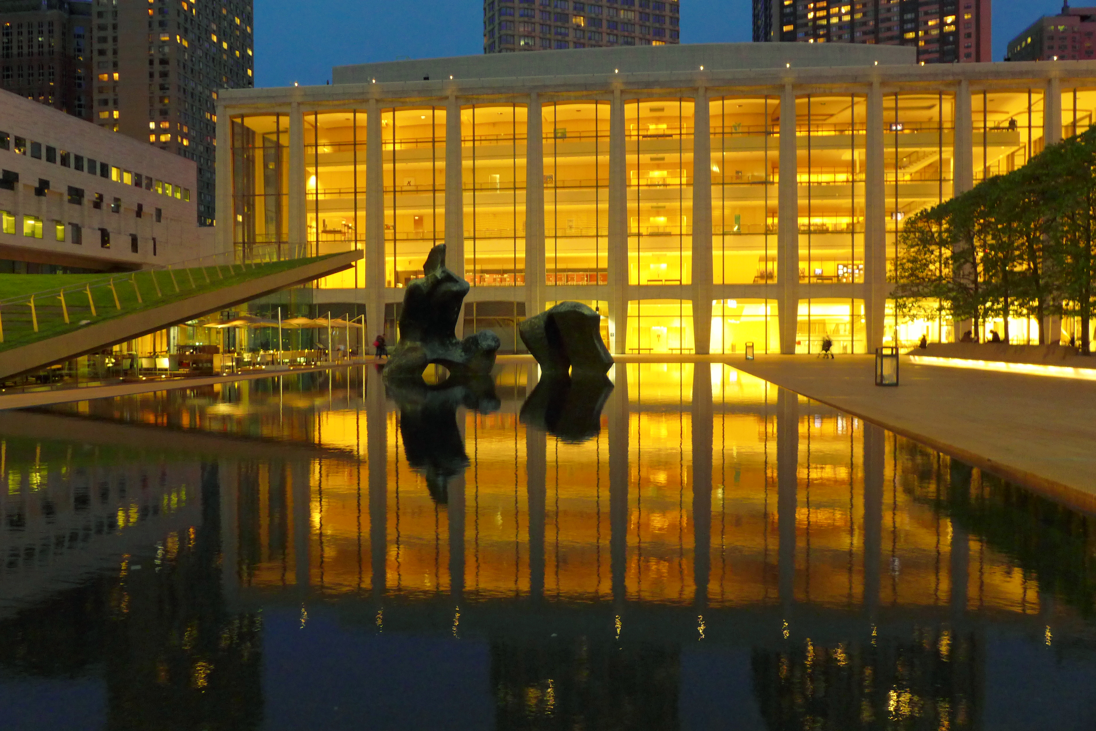 Lincoln Center at night. View of Avery Fisher Hall with Henry Moore sculpture.